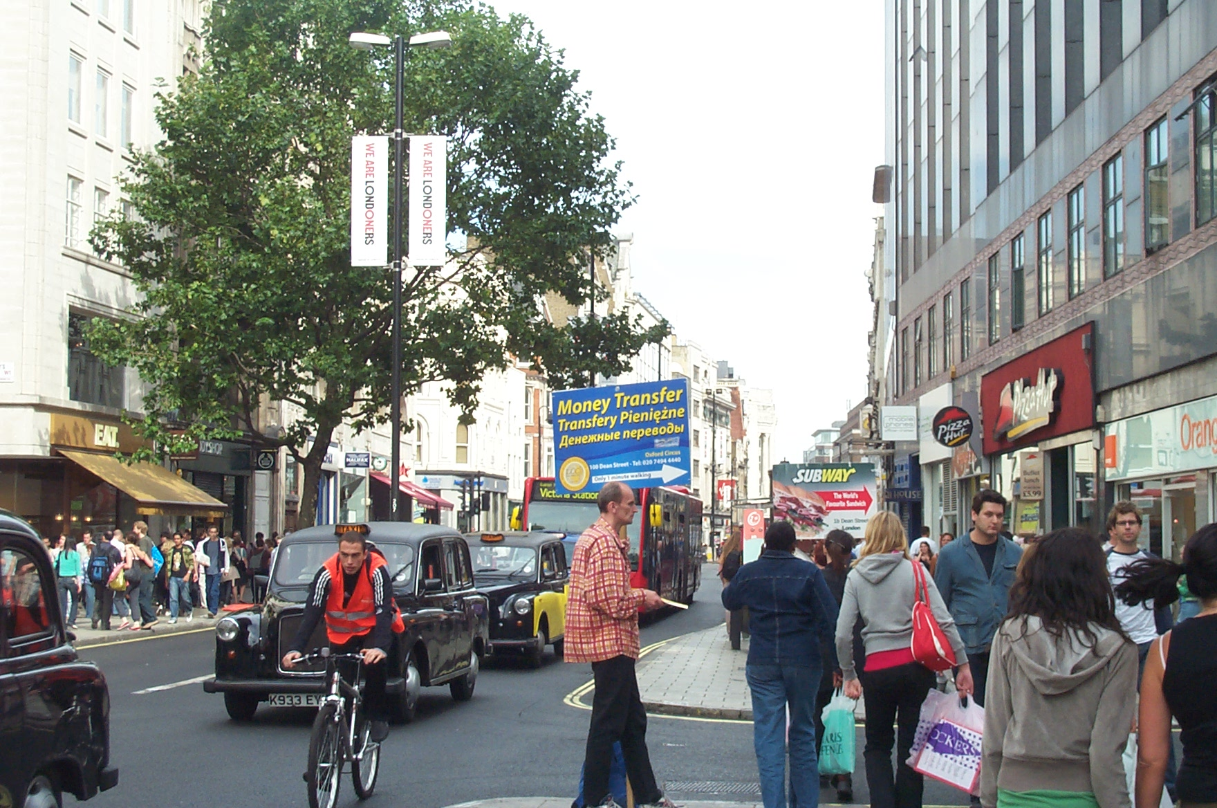 remittance advertising in Oxford Street, London with Polish and Russian slogans.